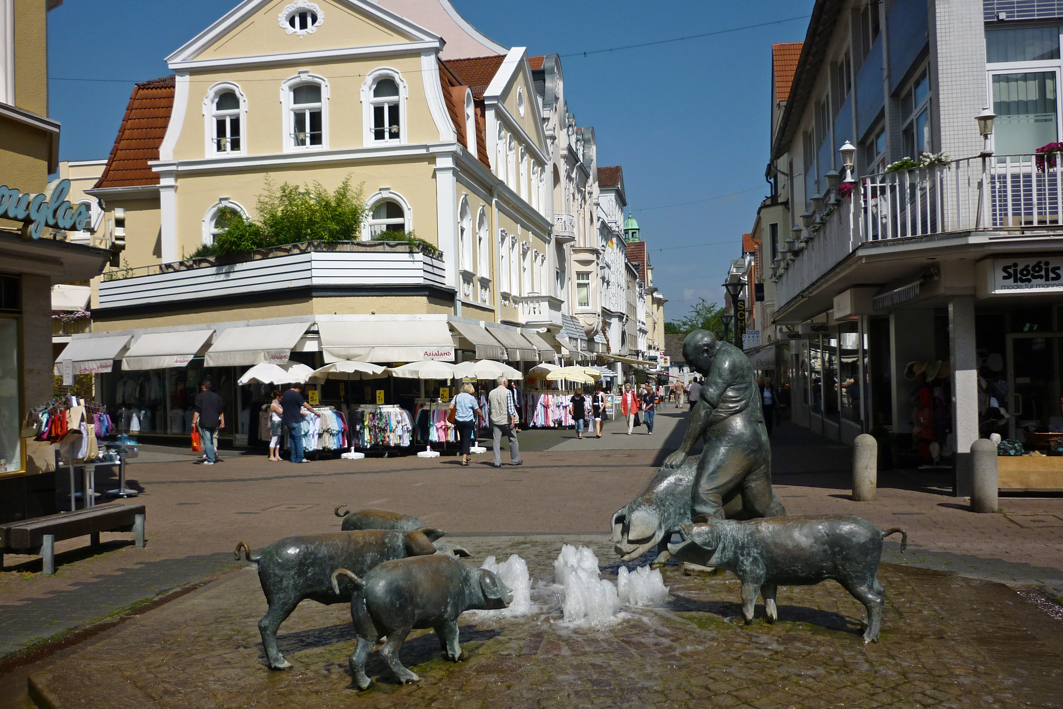 Bad Oeynhausen (Germany): Sültemeier-Fountain